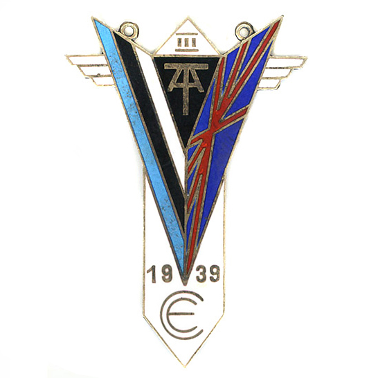 Old Estonian School Graduation Badge — TA, 1939, III issue